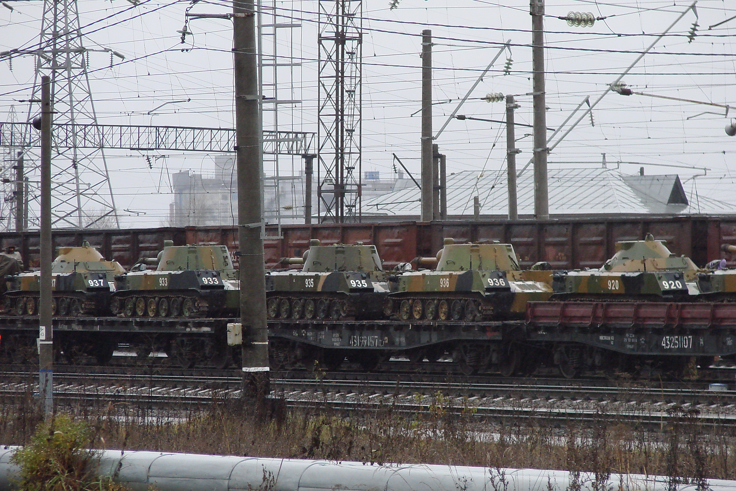 transporting 2S9 Nona by railroad